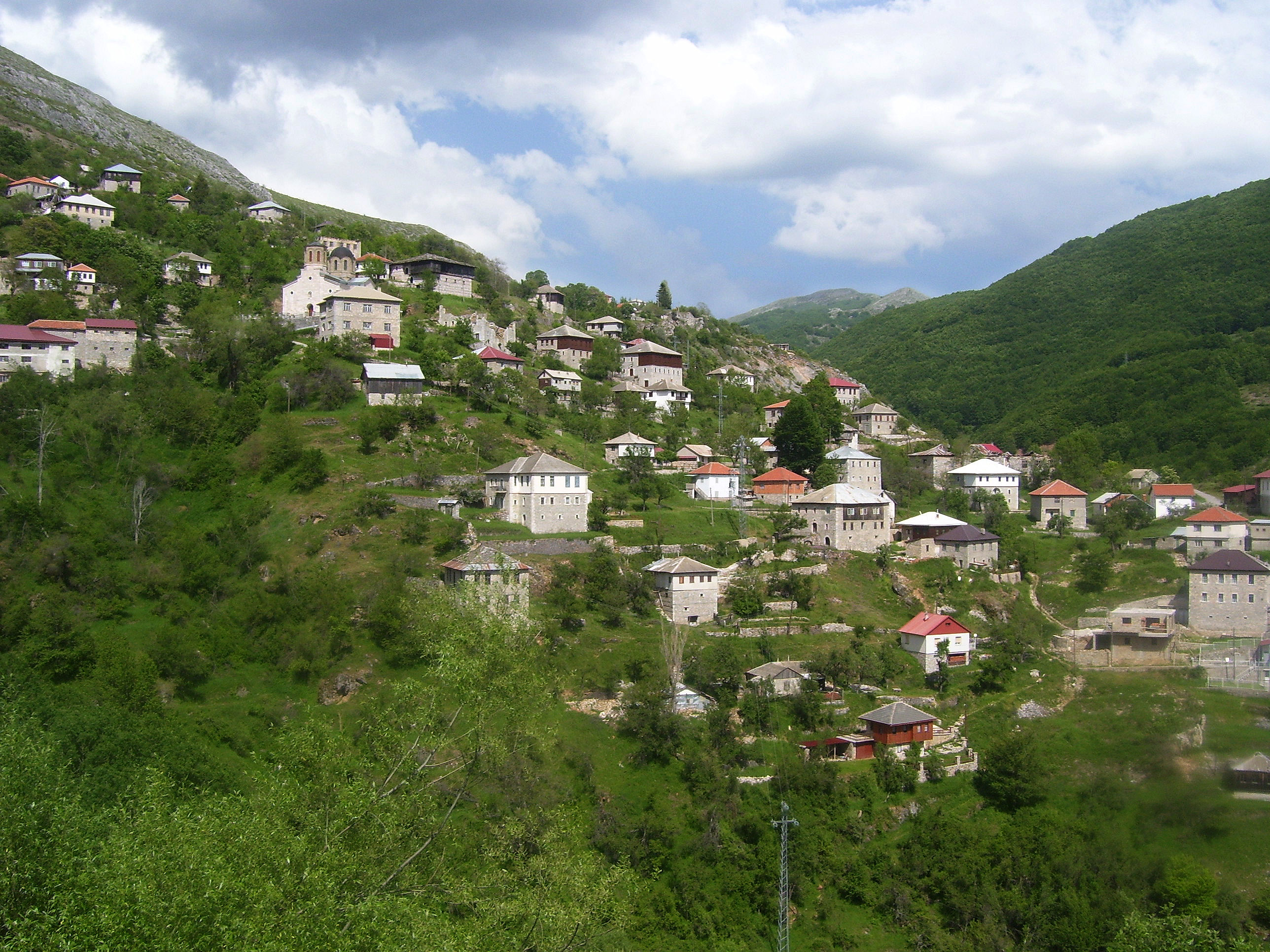 The northern part of the village of Galichnik, Republic of Macedonia